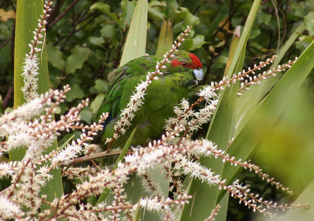 The Red-crowned Parakeets, or Kakariki, are a delightful member of New Zealand's avifauna. This guy was feeding on the flowers of a Cabbage Tree on Tiriitiri Matangi Island near Auckland.